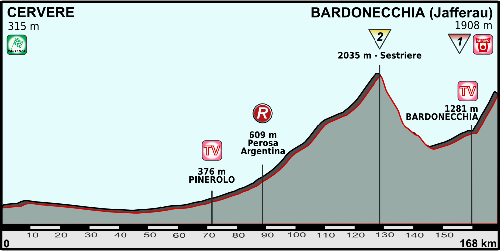 Giro d'Italia 2013 - stage profile # 14